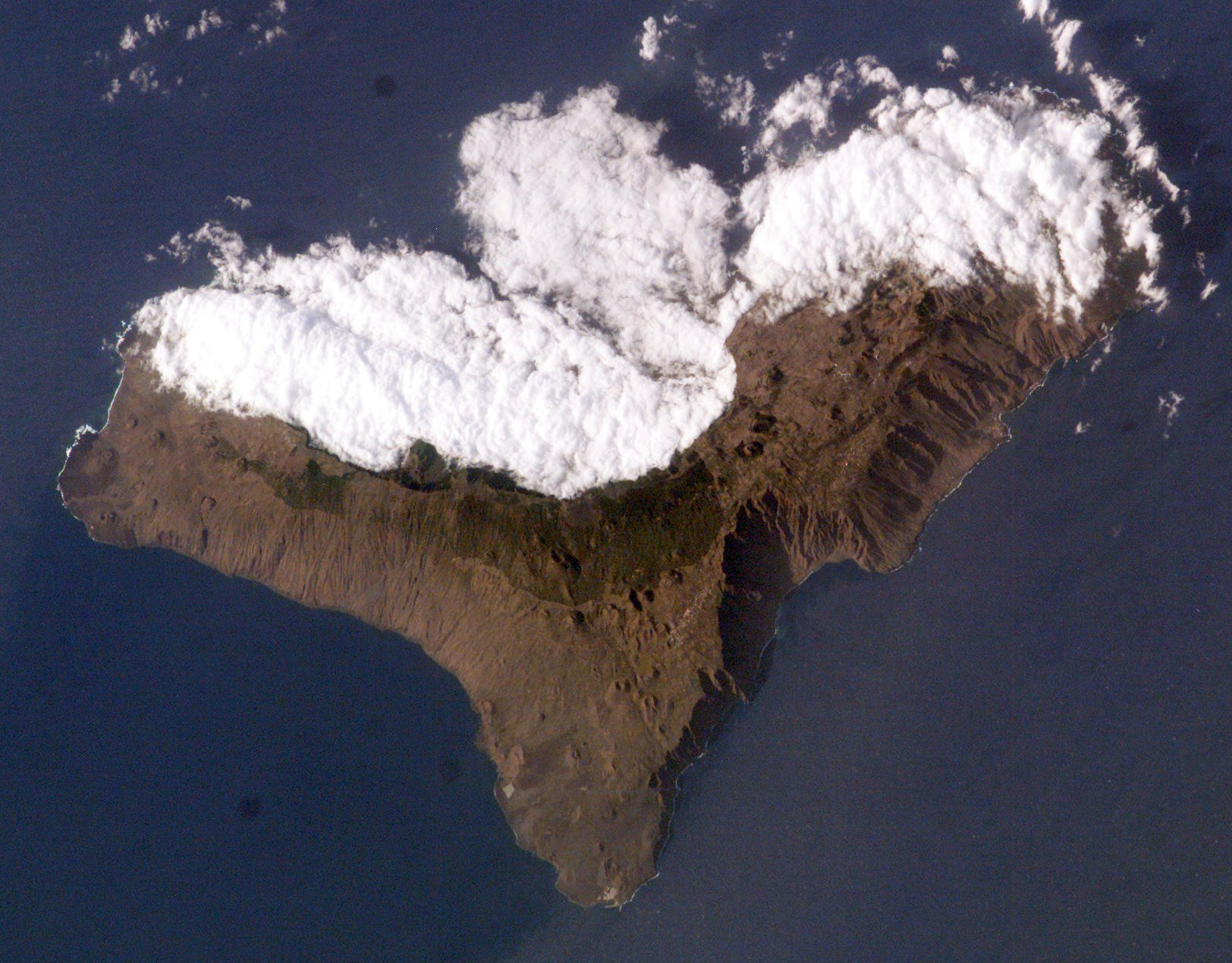 SAT picture of El Hierro Island (Cloud cover 10%) by NASA (Canary Islands, Spain)